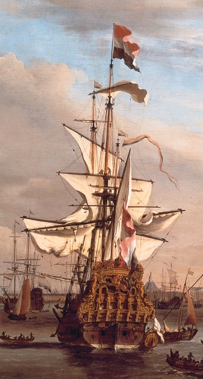 Cornelis de Tromp's former flagship the 'Gouden Leeuw' on the IJ in front of Amsterdamdetail